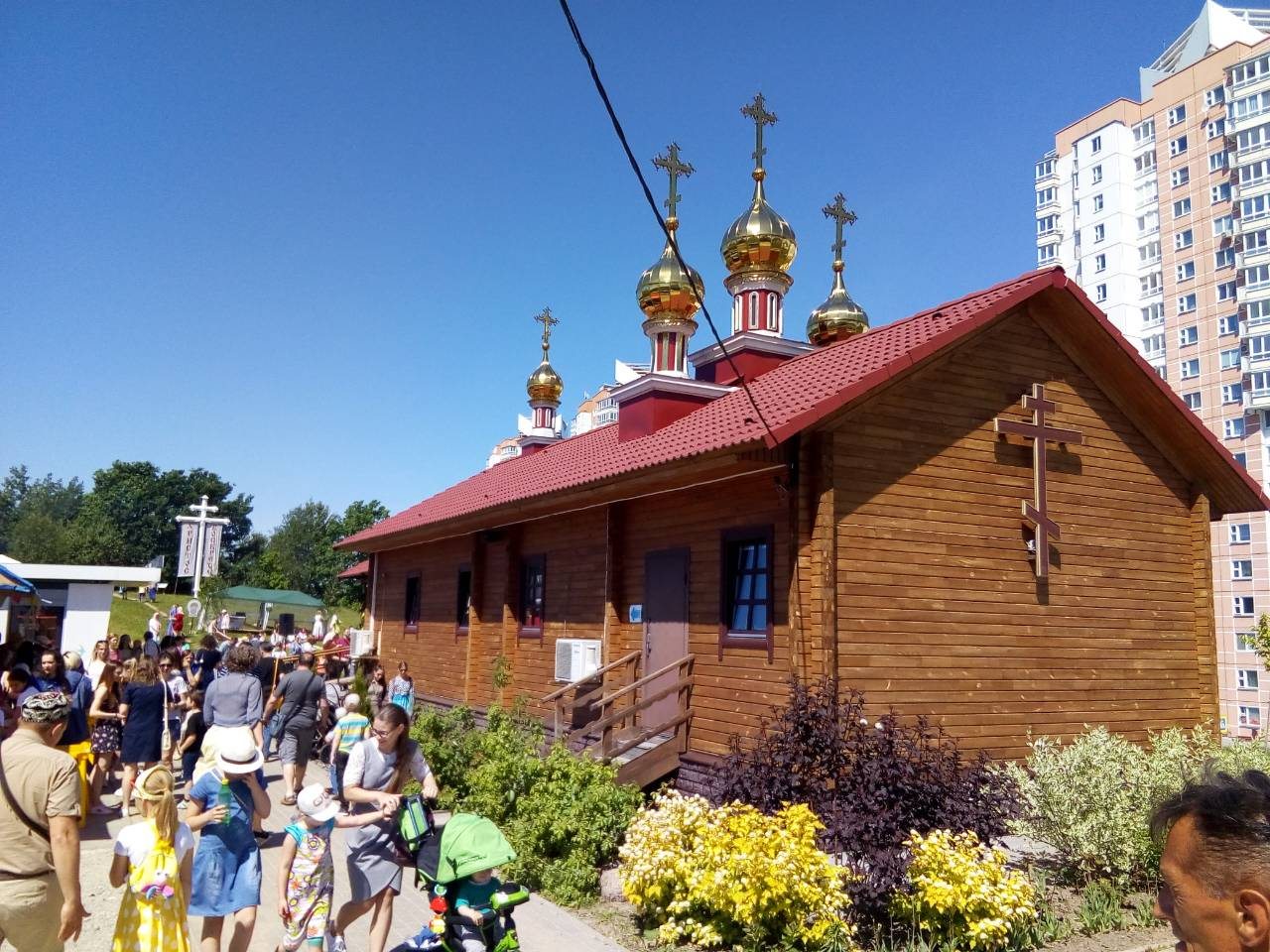 Nicholas of Japan's wooden church in Minsk (Belarus) during the Trinity fest on the 27th of May, 2018. The crosses from left to right: white metallic one is the Patriarchal cross, on the domes are the Russian Orthdox crosses (Russian crosses), on the wall is the Orthodox cross (☦).